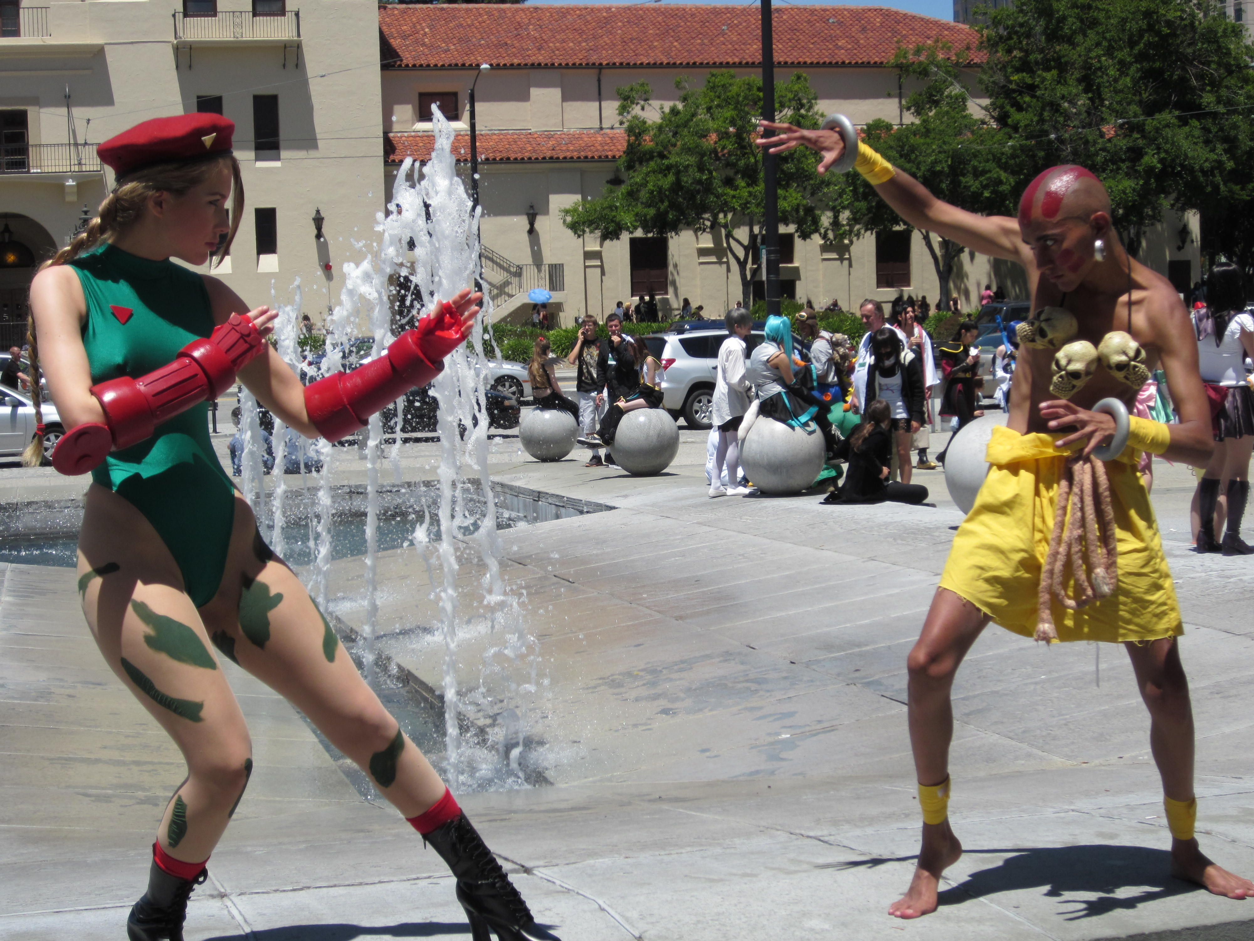 Cosplayers portraying Cammy and Dhalsim from Street Fighter at FanimeCon 2010 in San Jose, California.